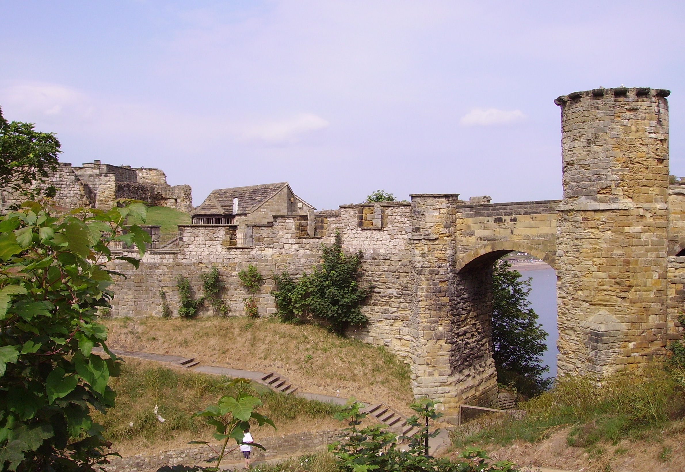 view of Scarborough castle in North Yorkshire, United Kingdom